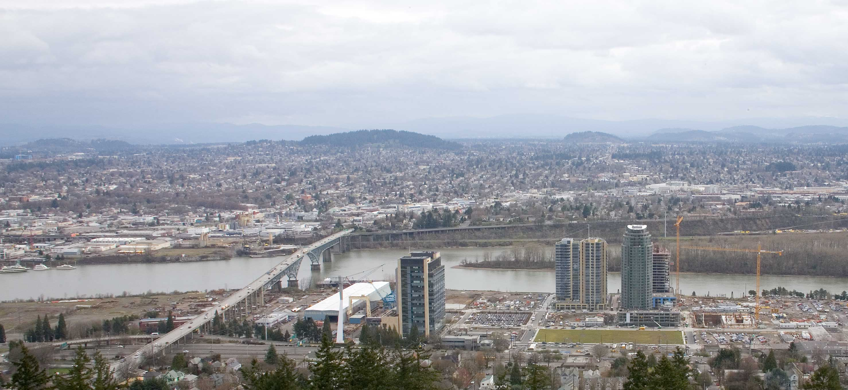 The South Waterfront District in Portland, Oregon from Marquam Hill.